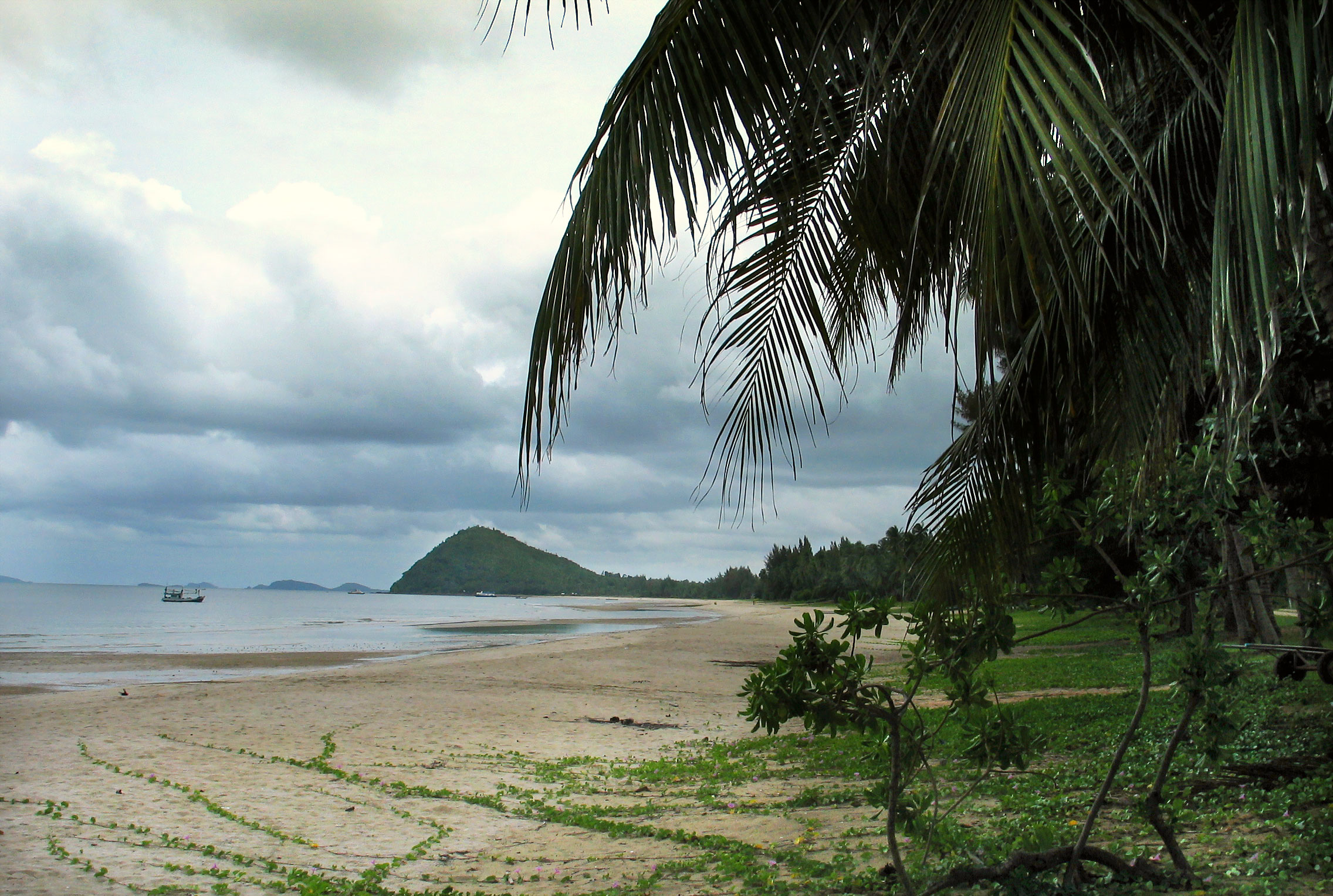 Thung Wua Laen beach, Pathio district, Chumpon province, southern Thailand